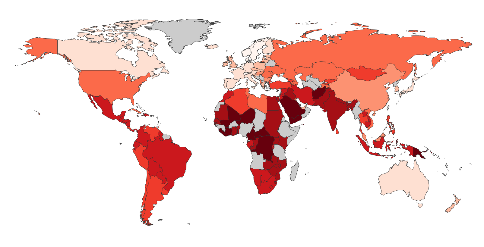 Gender Inequality Index (updated), 2008